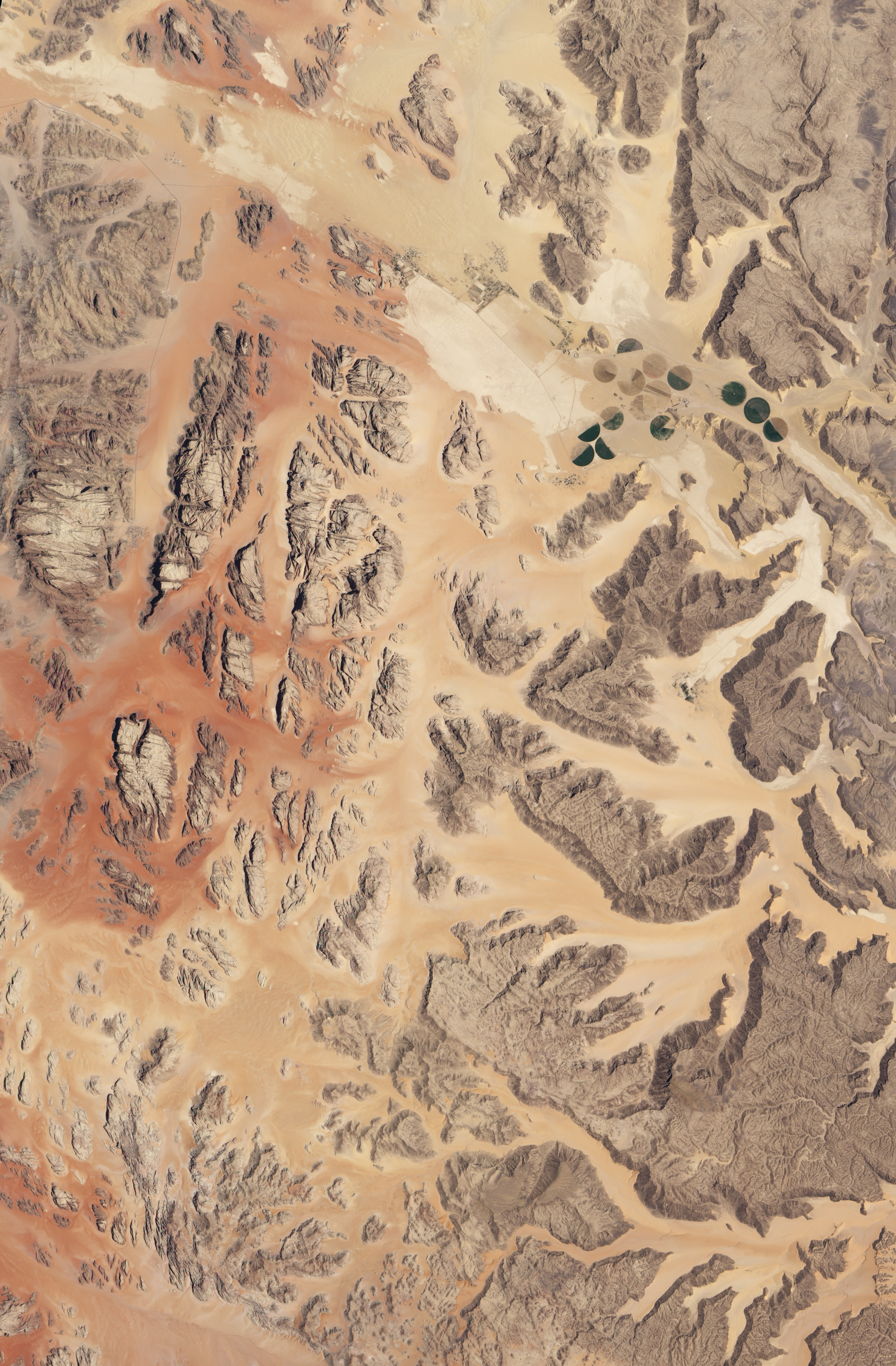 Natural-colour image of Wadi Rum. The scene includes part of Wadi Rum and an adjacent area to the east. East of the protected area, fields with center-pivot irrigation make circles of green and brown (image upper right). As the earth tones throughout the image attest, the area is naturally arid, receiving little annual precipitation and supporting only sparse vegetation. Between rocky peaks, the sandy valleys range in colour from beige to brick.